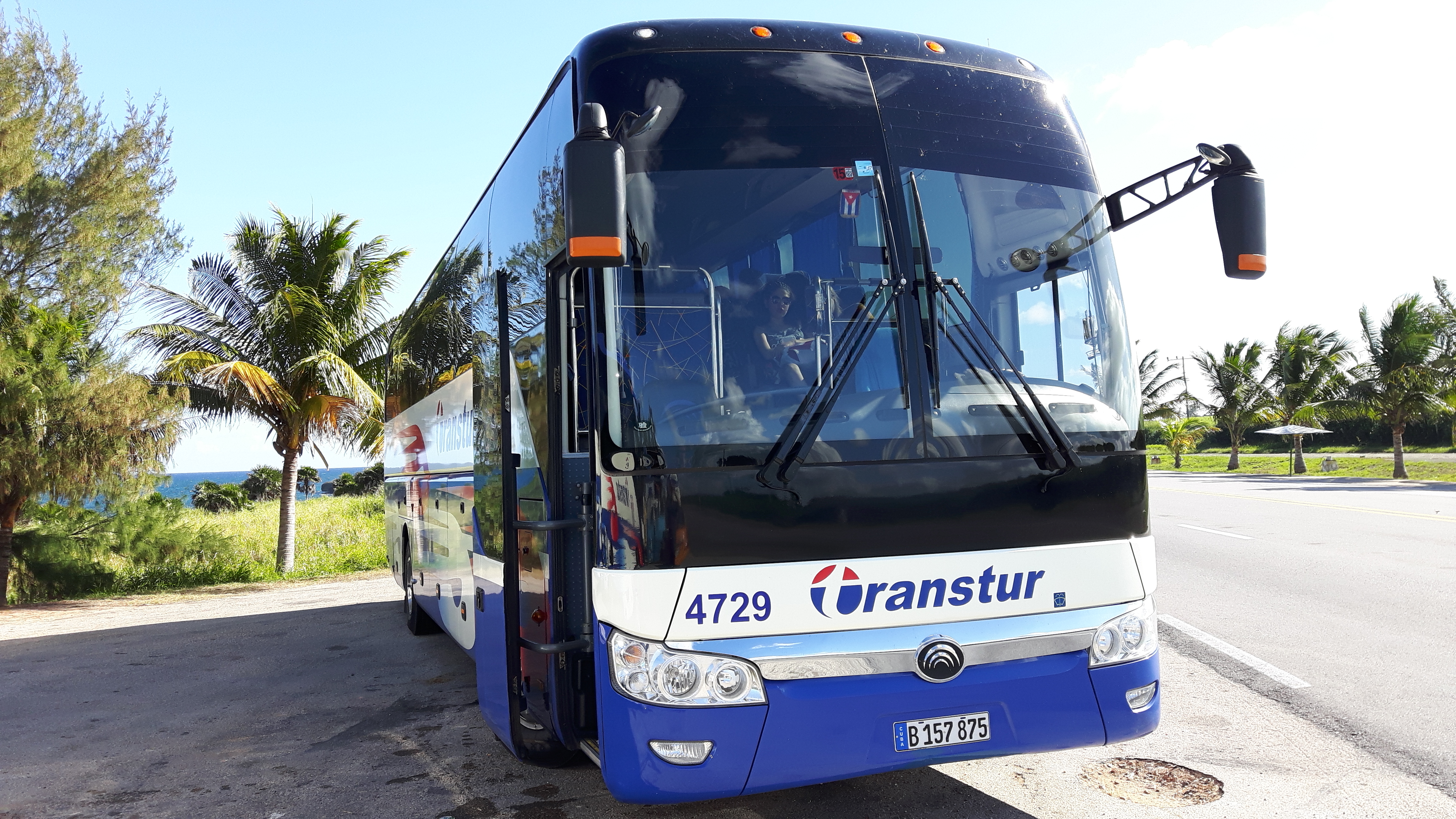 Yutong coach operated by bus operator Transtur at a rest area in Mayabeque province, Cuba.